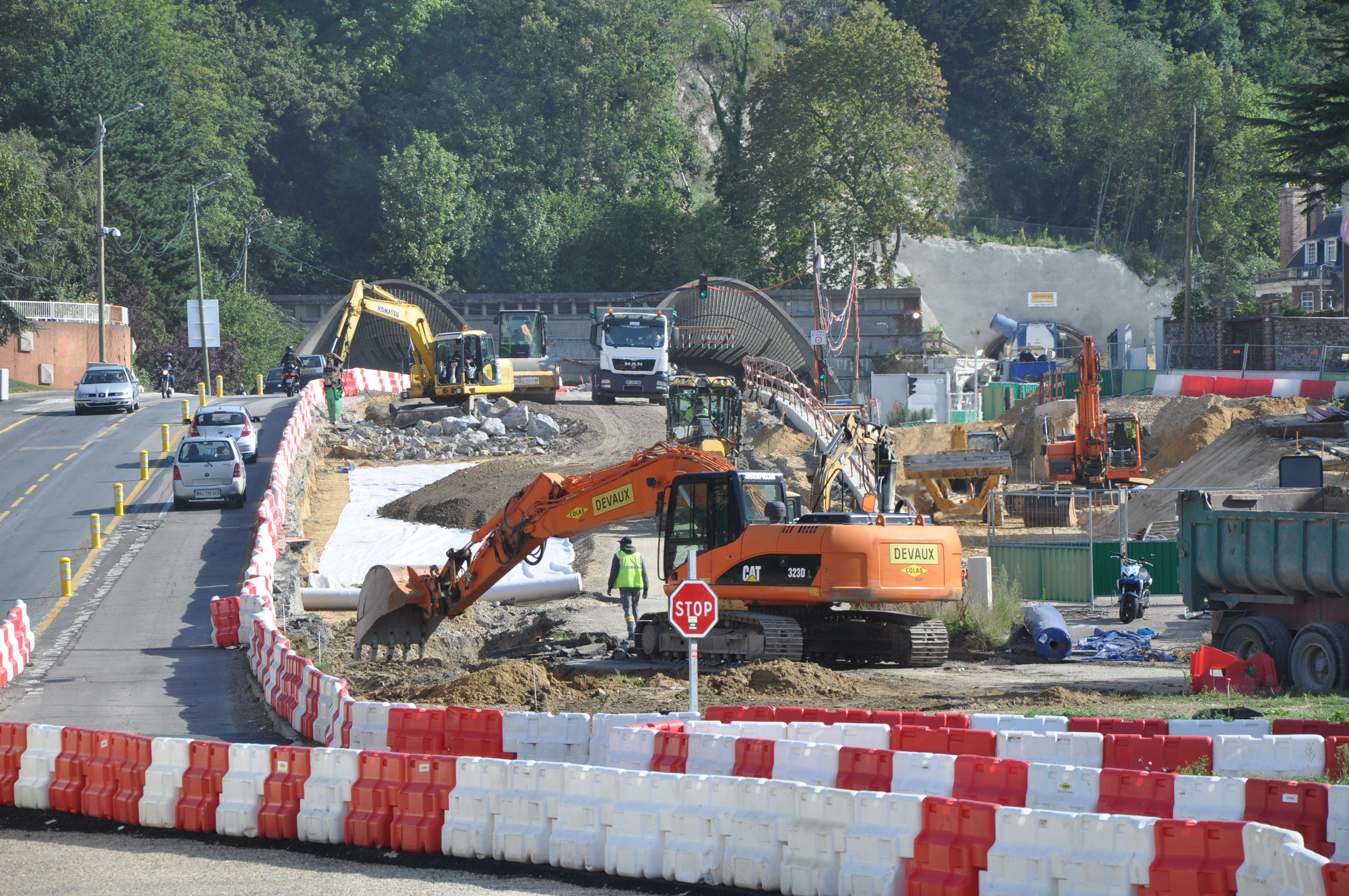 Le Havre (Normandy, France)